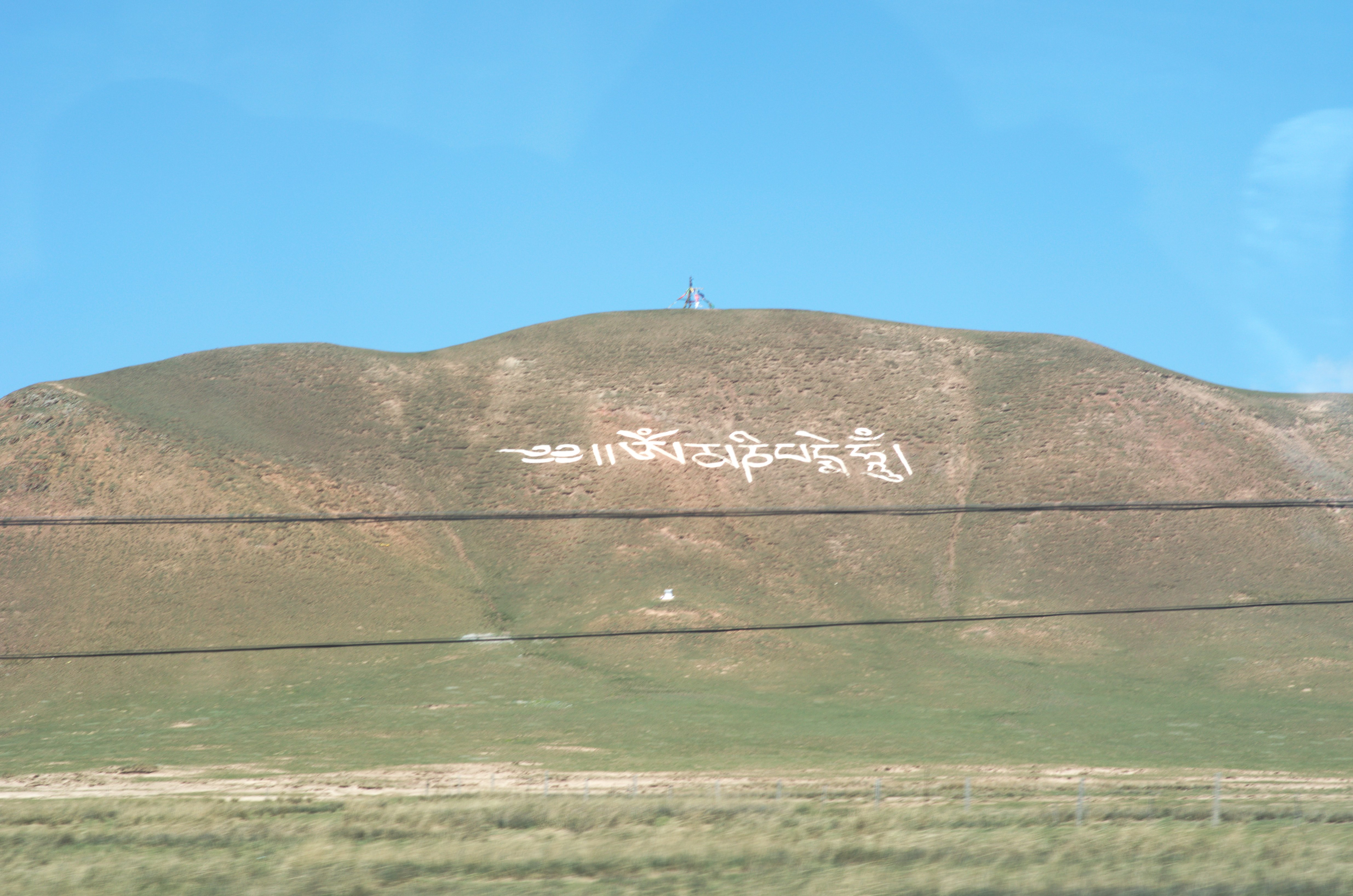 Great tibetan script on a montain, near Qinghai lake. This is a prayer verse.